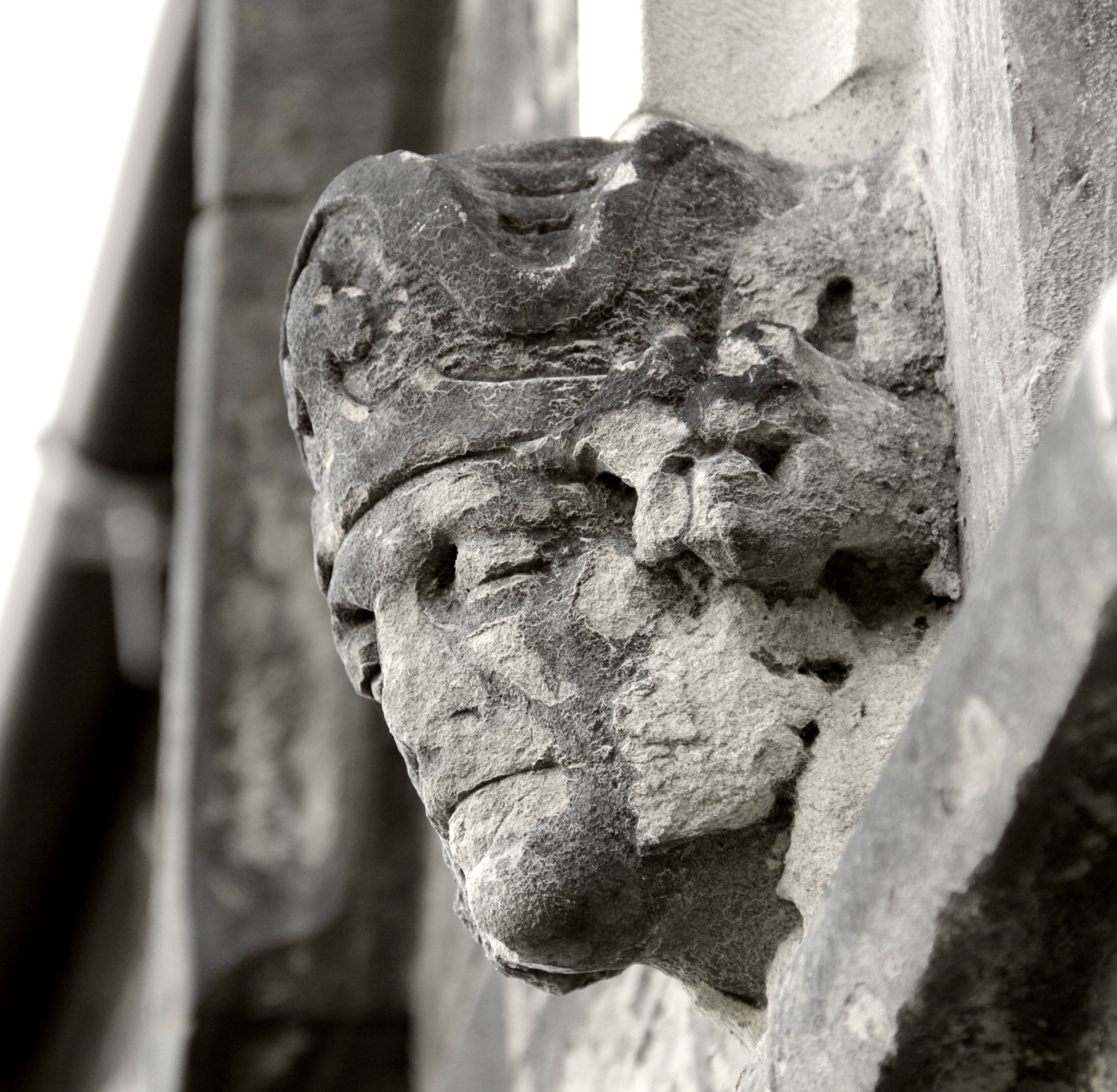 Label stop head by Catherine Mawer, on St Stephen's Church, Newton Street, West Bowling, Bradford, England. The church was designed by Mallinson and Healey, and consecrated in 1860. There are four of these heads on the church, two placed either side of the north and south main doors. Outside the north door are portraits of Queen Victoria and Robert Bickersteth Bishop of Ripon, who consecrated the building in 1860. The portraits by the south door are unidentified. All are badly weather-worn. This one is by the north door. It is a portrait of Robert Bickersteth.